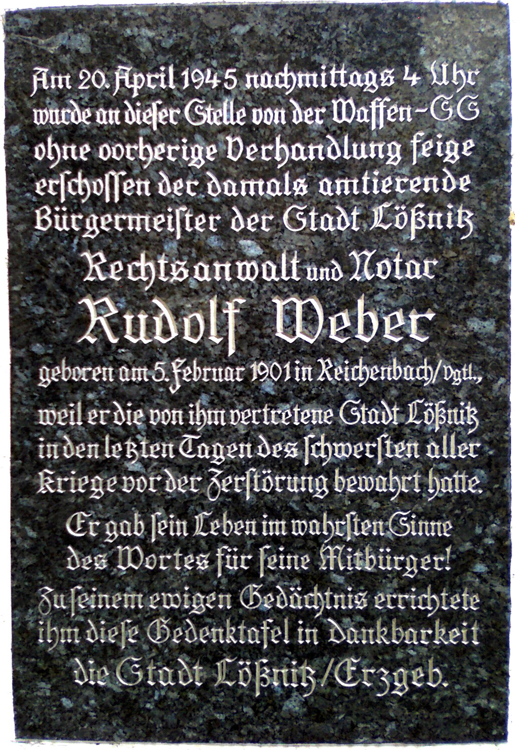 weber commemorative plaque loessnitz